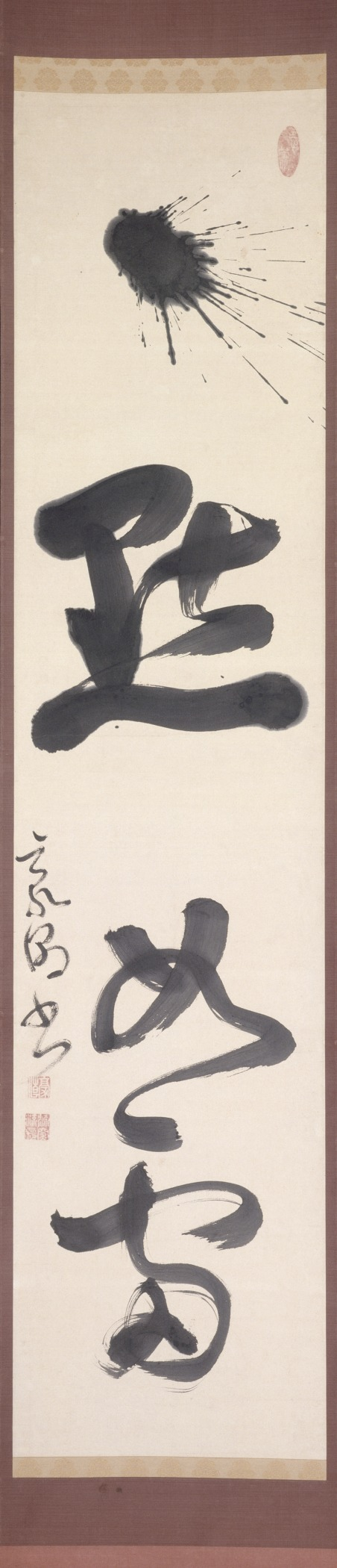 Japan, 18th-19th century Paintings; scrolls Hanging scroll; ink on paper Gift of the 1988 Collectors Committee (M.88.84) Japanese Art